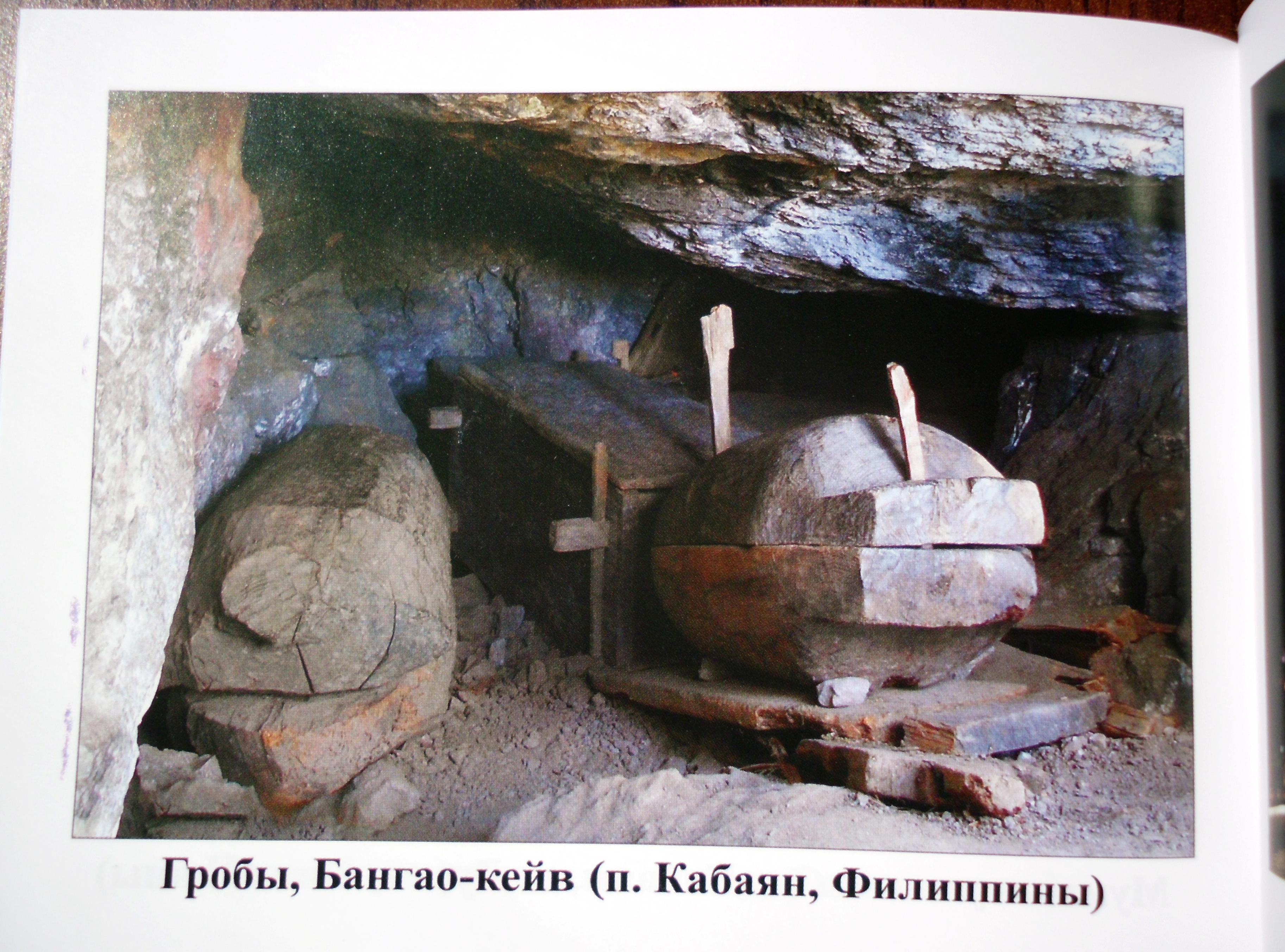 Philippines. Photo from V. Pinchuk's book “Two months of wanderings and 14 days unfreedom,” ISBN 978-5-9909912-5-5